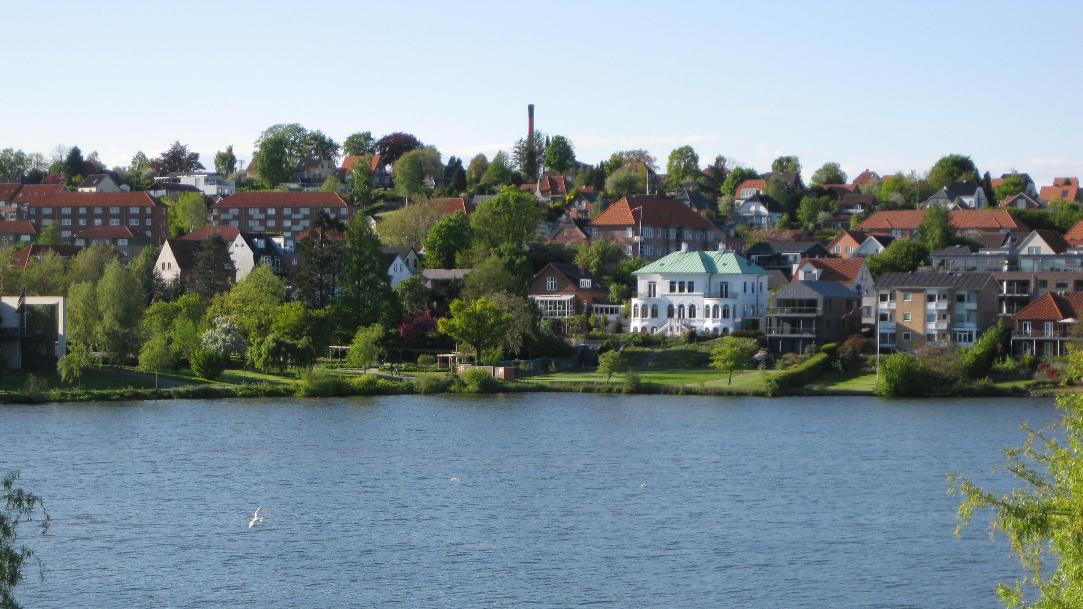 The castle lake "Kolding Slotsø" in the city of "Kolding". The city is located in South-Central Jutland, Denmark.